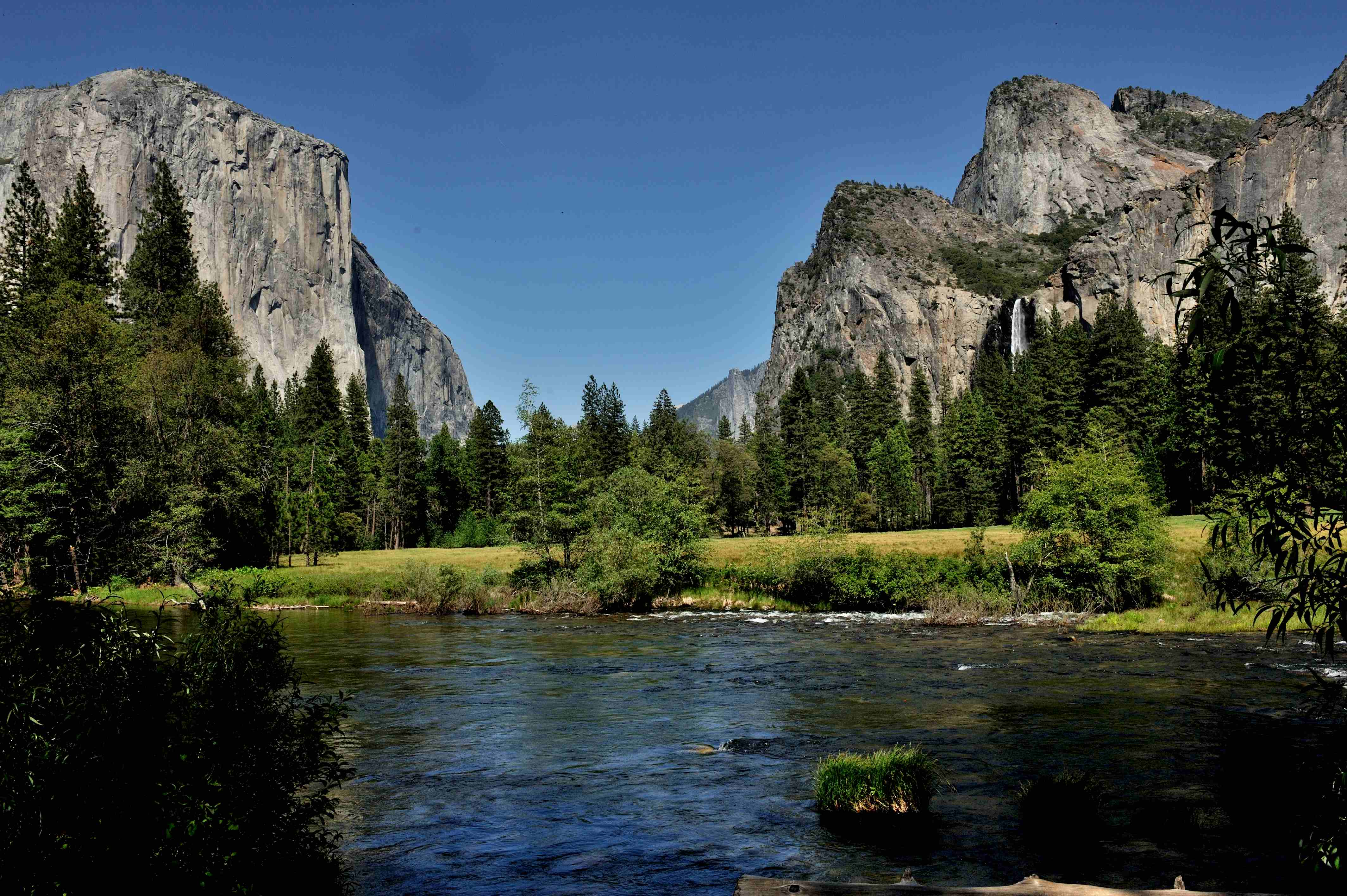 U shape valley Yosemite